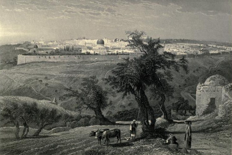 Jerusalem from The Mount of Olives (engraving)